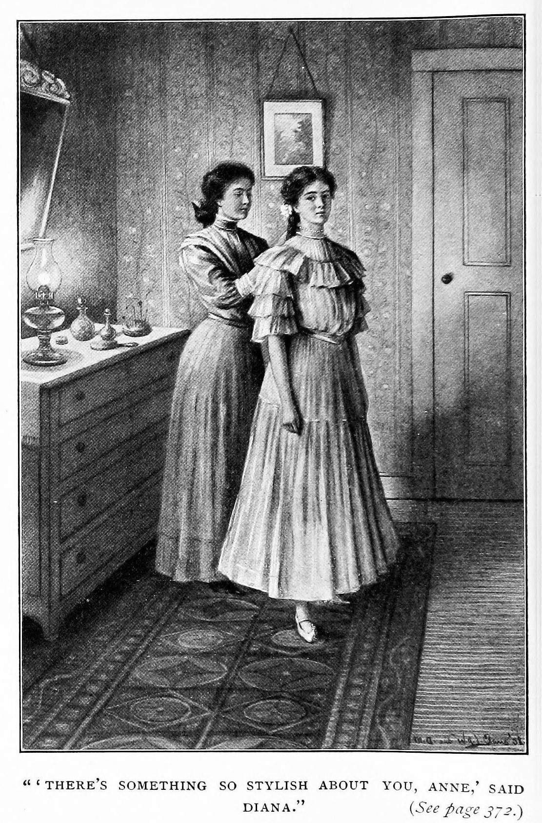 Illustration from a 1908 publication of Anne of Green Gables by L.M. Montgomery